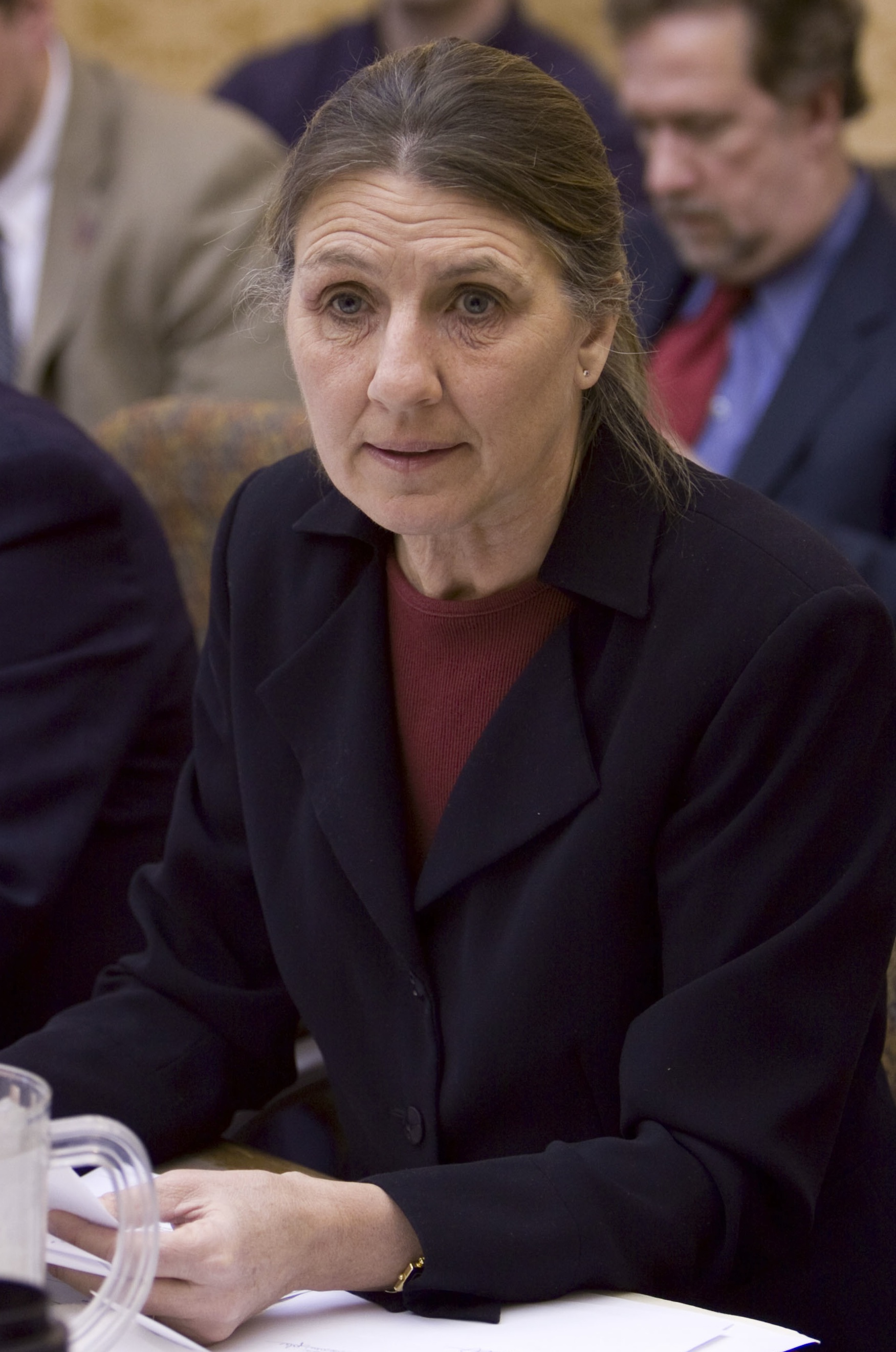 Former Wisconsin State Assemblywoman Peggy Krusick.